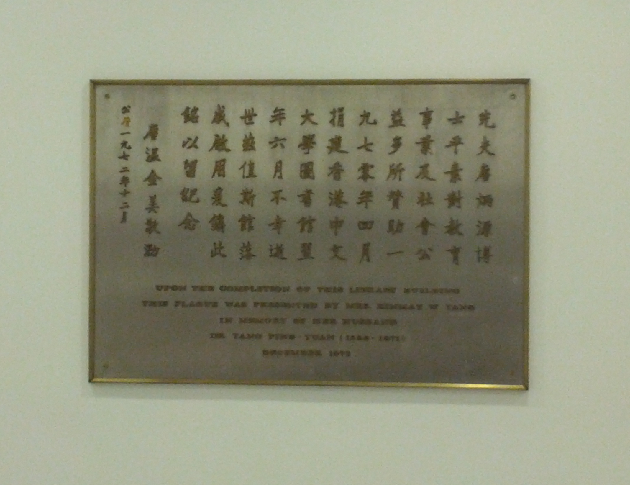 The plaque commemorating the opening ceremony of the University Library building of the Chinese University of Hong Kong in December 1972, presided over by the widow of the late Dr. TANG Ping-yuan, formerly an unofficial member of the Executive Council.